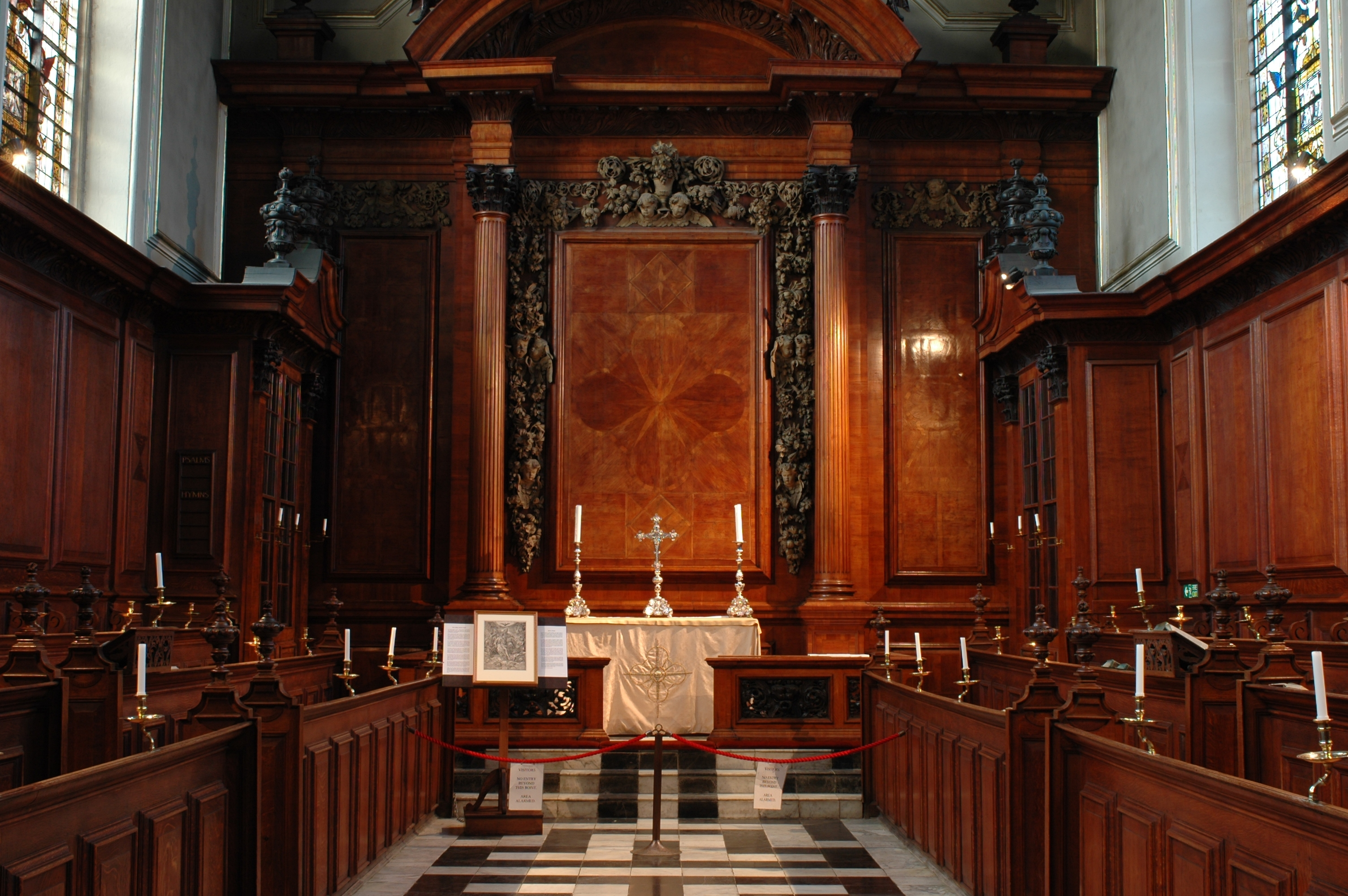 Chapel at Trinity college, Oxford, looking towards the alterChapel at Trinity - looking towards the altar